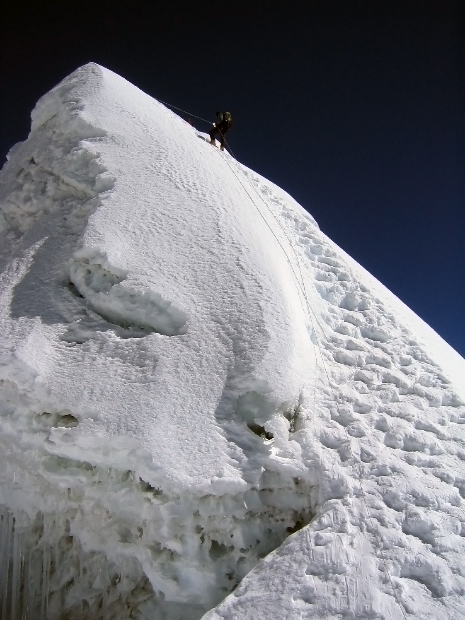 An aplinist making his way to the top of the summit ridge on Island Peak in the Khumbu region of Nepal.